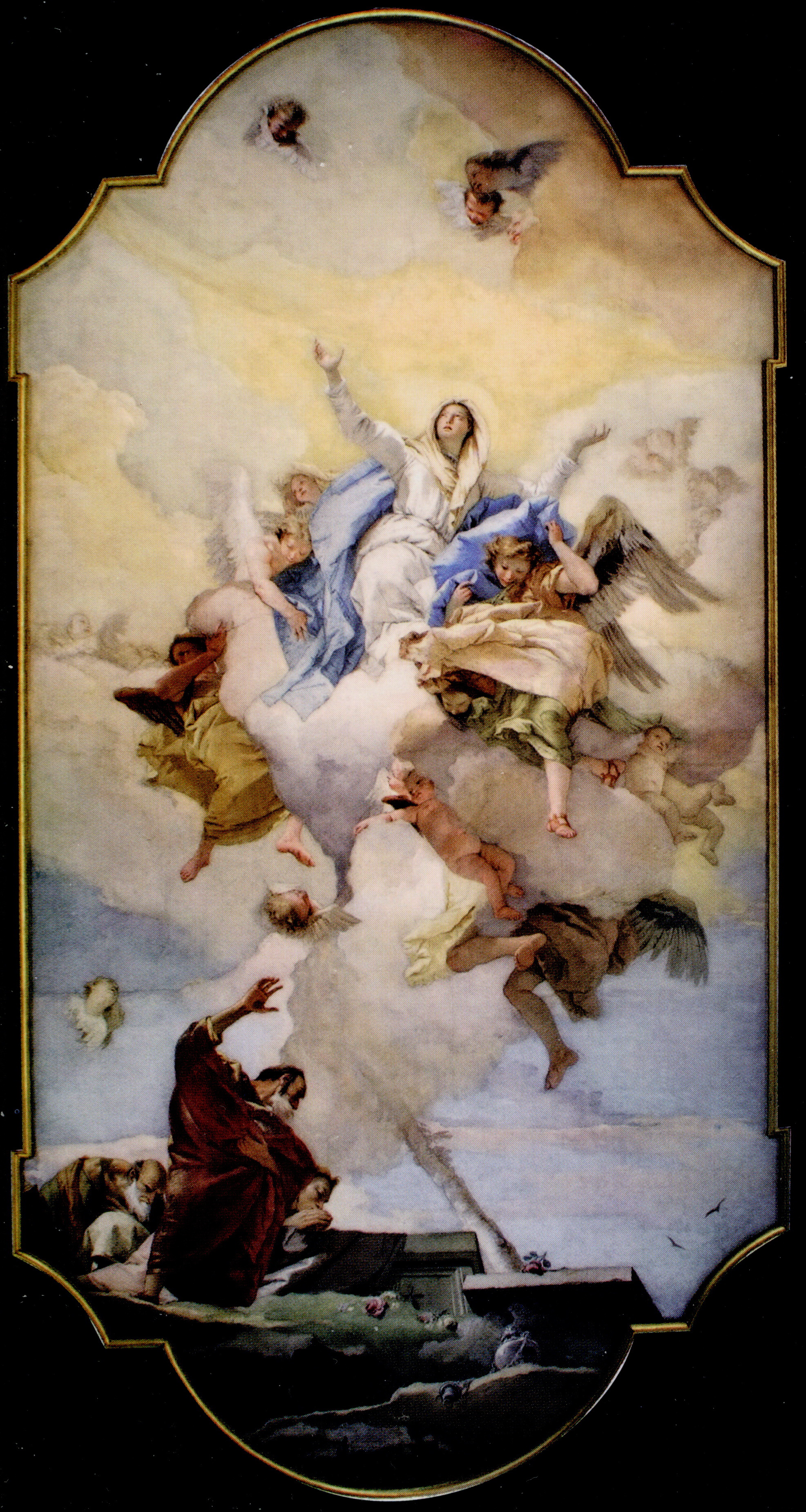 Assumption of Mary